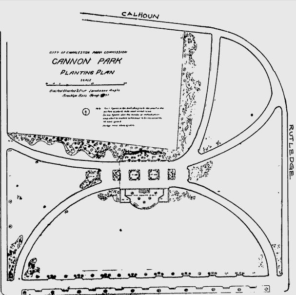 The landscaping firm of Olmsted, Olmsted & Eliot designed a planting plan for a park at the intersection of Rutledge Ave. and Calhoun St. in Charleston, South Carolina in 1897.